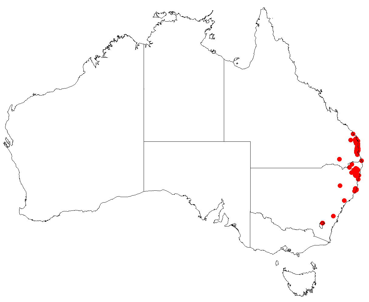 Eucalyptus bancroftii Collections data from AVH